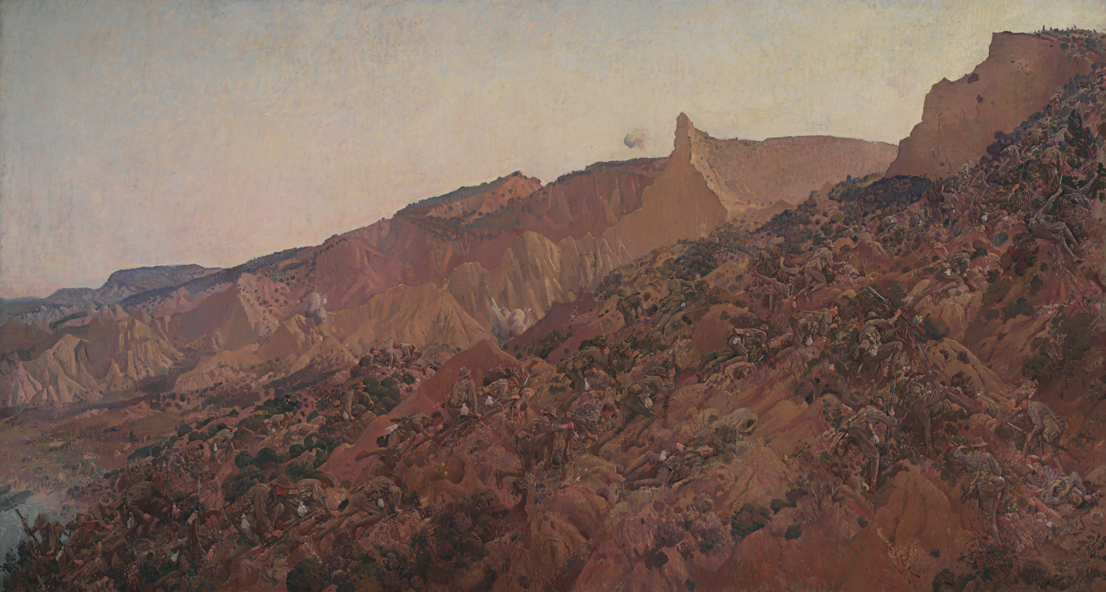 The painting depicts the Australian soldiers of the covering force (3rd Infantry Brigade) climbing the seaward slope of Plugge's Plateau which overlooks the northern end of ANZAC CoveAnzac Cove. The view is to the north, towards the main range. The yellow pinnacle is "The Sphinx" and beyond is Walker's Ridge which leads to Russell's Top. The white bag that each soldier is carrying contains two days of rations which were issued specially for the landing.